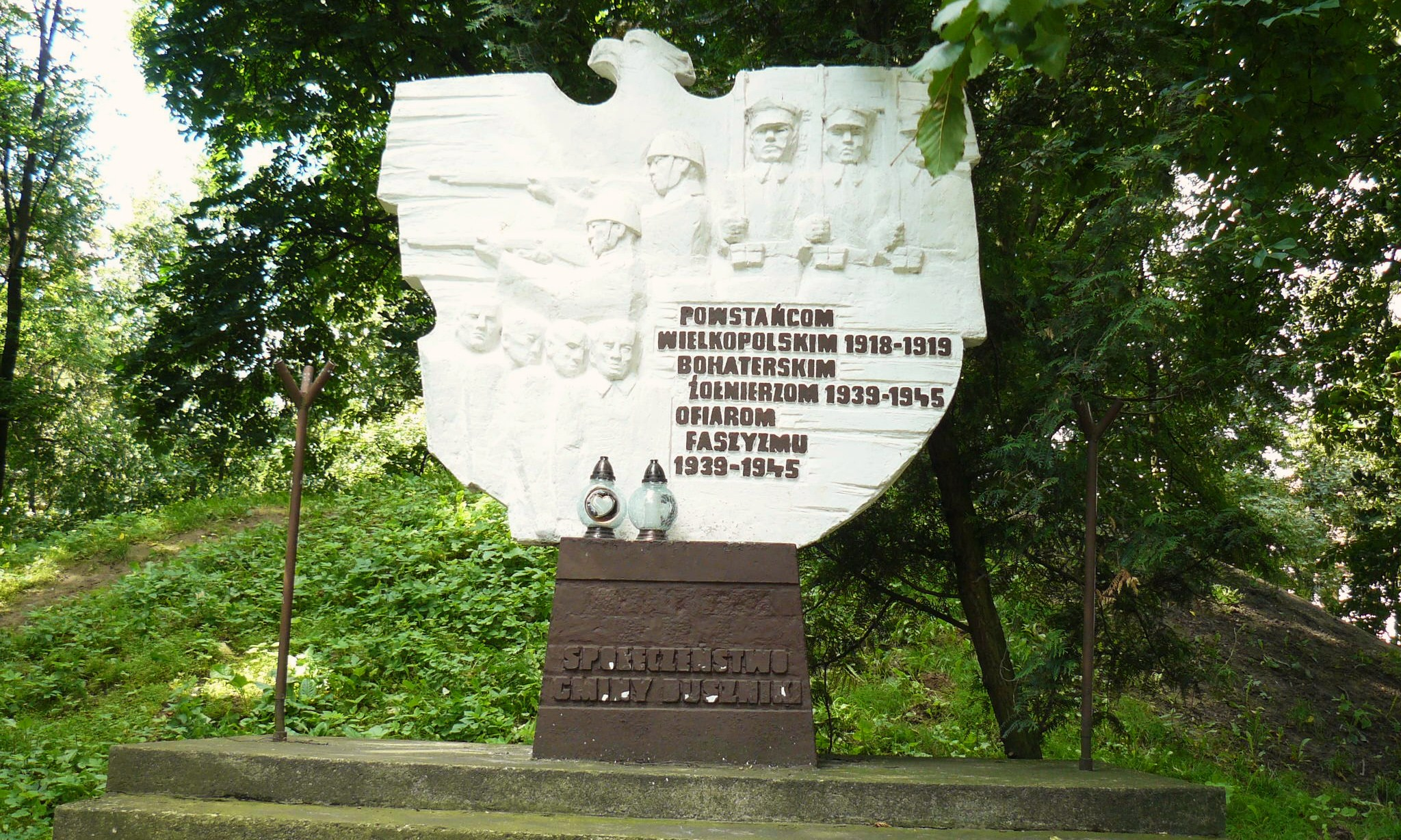 Duszniki Wlkp. - monument WWII.